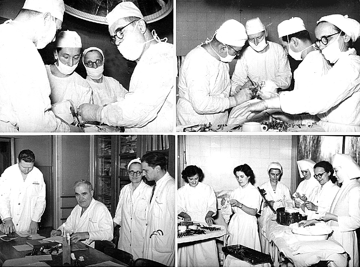 Bogdan's Kosanovic surgical team of City Hospital, Belgrade 1949. (private collection of Mihailo Grbic - gmihail)